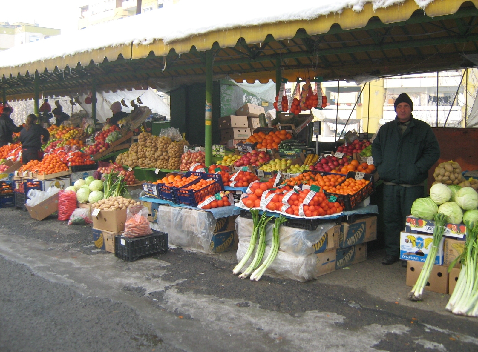 Vazrojdentsi district, Kardzhali, Bulgaria